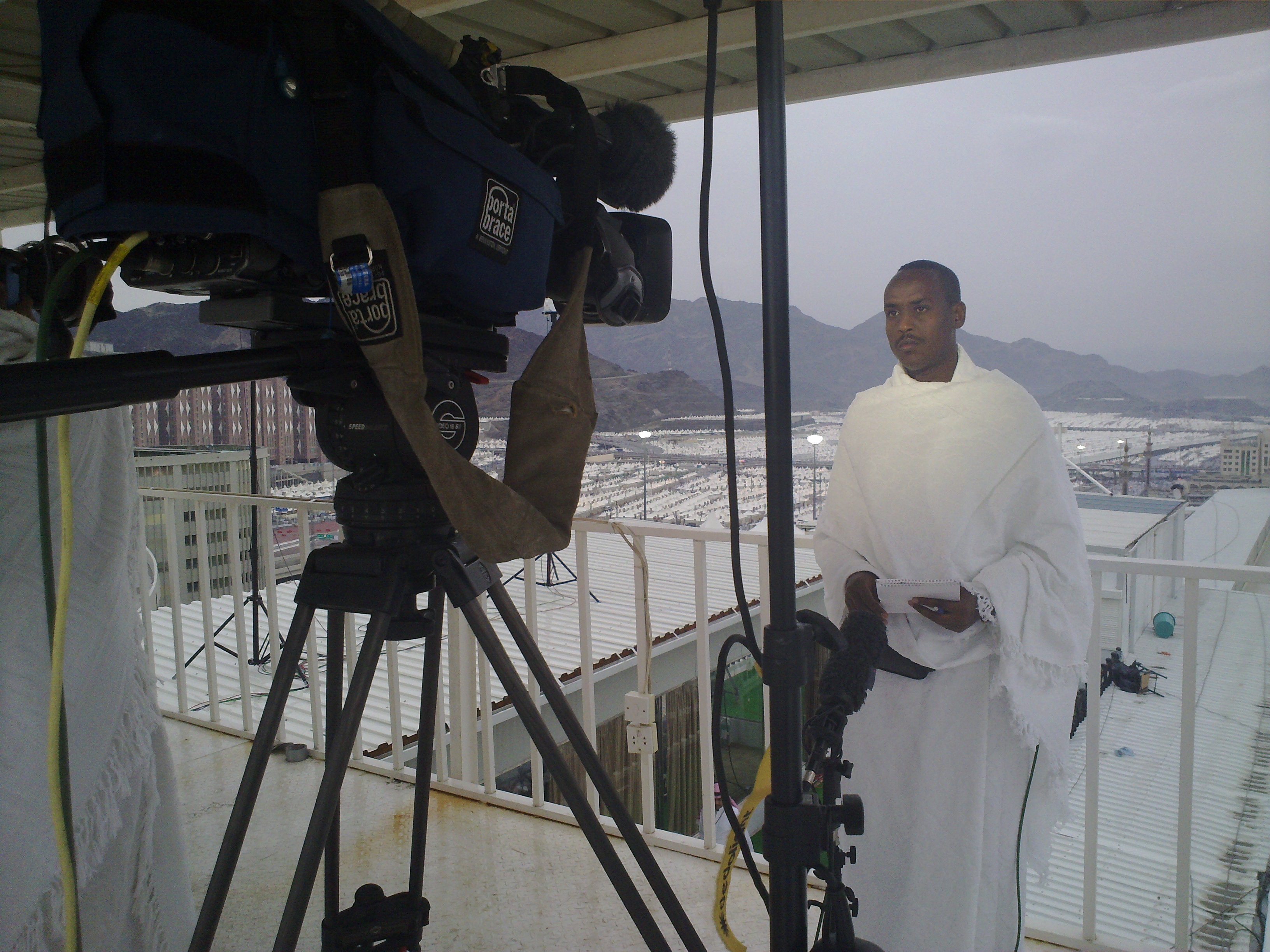 Preparing of the live coverage of Hajj by Al Jazeera in Mecca